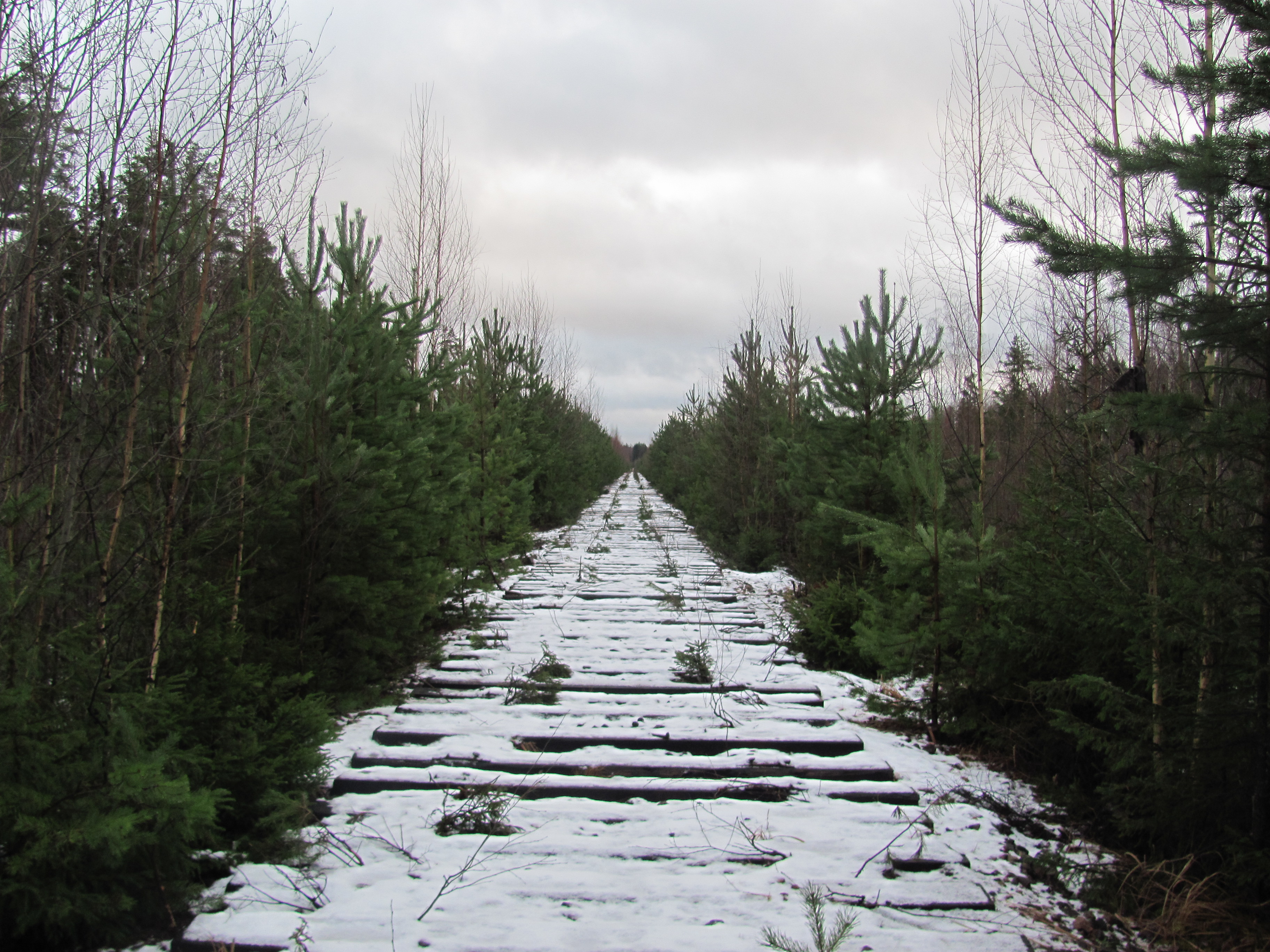 Former Vyborg — Veshchevo railway between Perovo and Osinovka, Leningrad oblasr, Russia